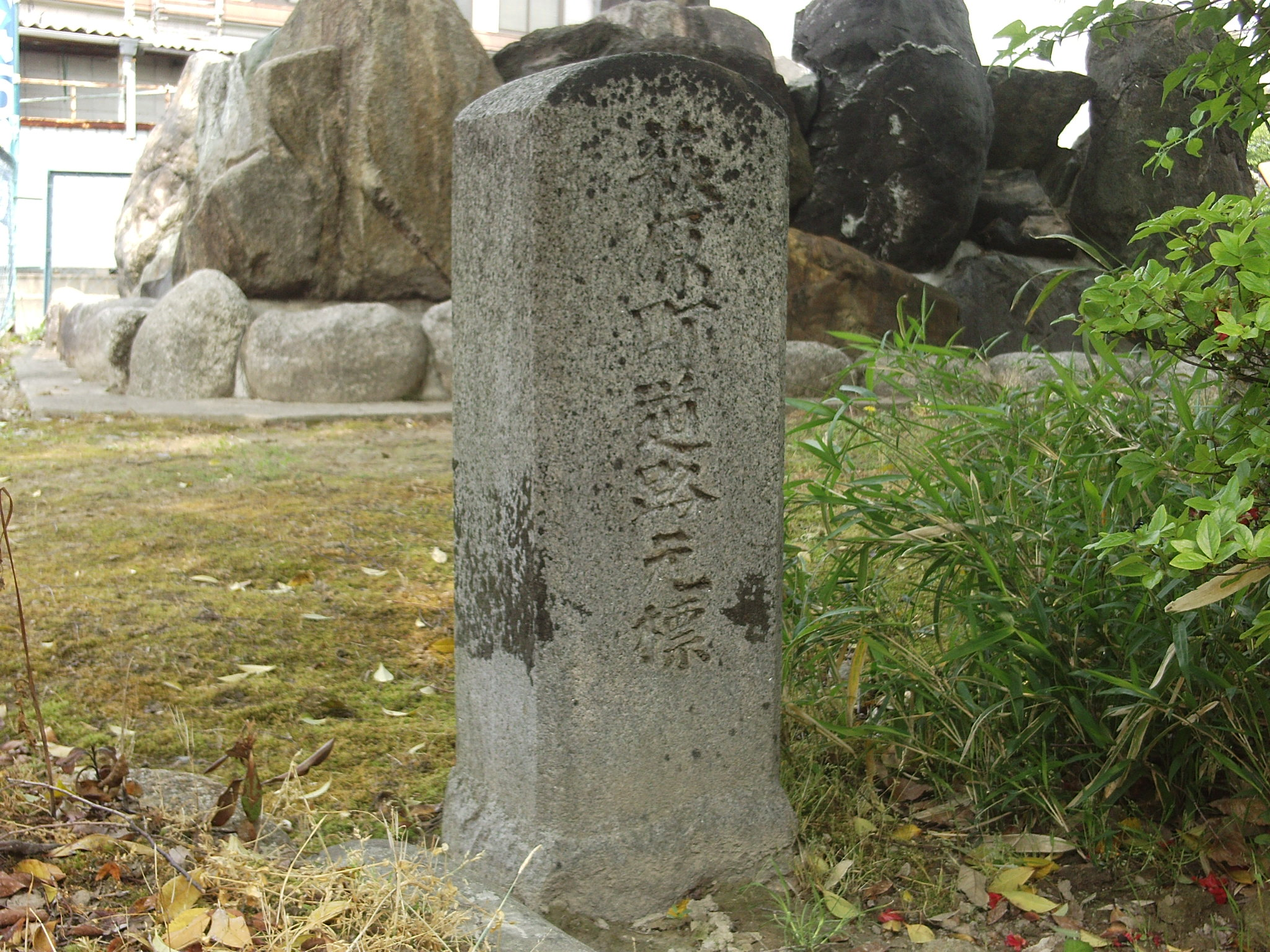 Kilometre zero of Hagiwara town. (Hagiwara town, Nakashima-gun, Aichi.)